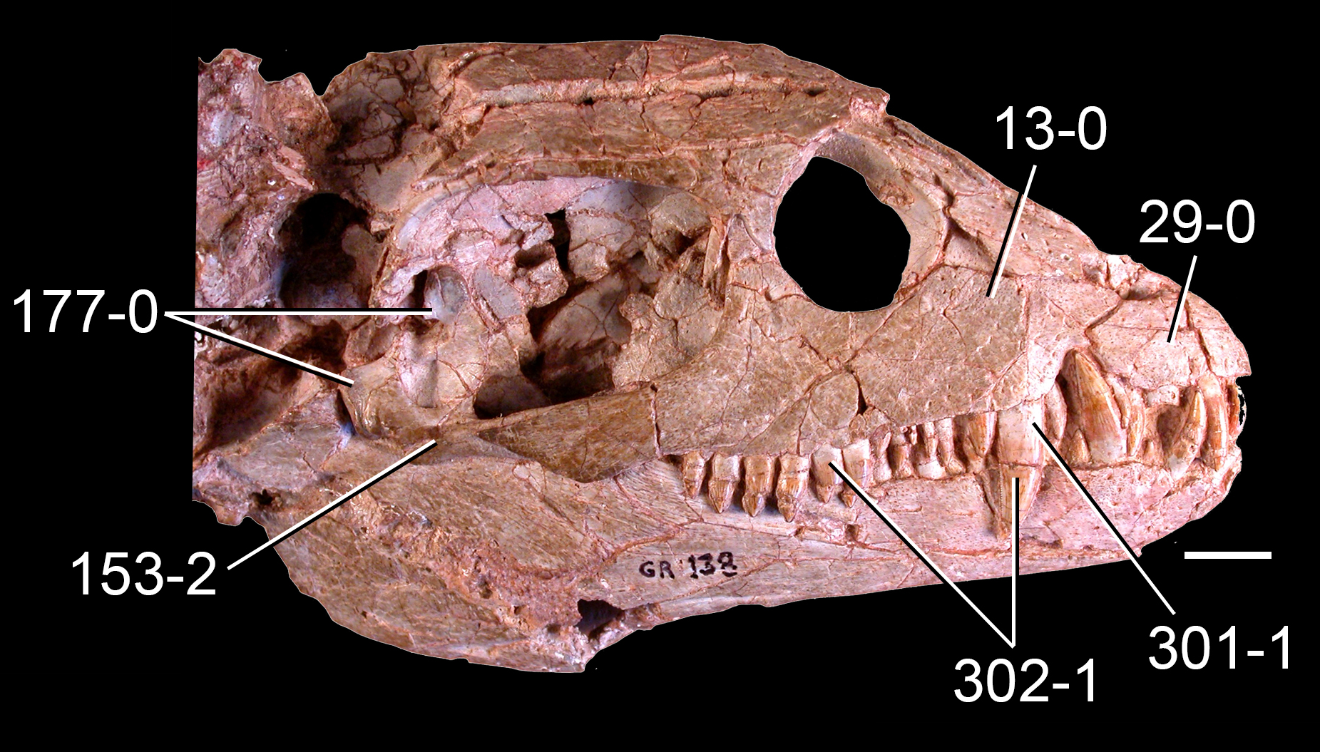 USNM 508519, a cast of GR 138, a specimen of Vancleavea campi. Image is in right lateral view. Photograph courtesy of Sterling Nesbitt. Scale bar equals 1 centimeter. Numbers indicate character-states scored in the data matrix. Character state scores= 13-0:Absence of an antorbital fenestra. 29-0: Main body of the premaxilla is not downturned, the alveolar margin is sub-parallel to the main axis of the maxilla. 153-2: A distinctly present anterior process of the quadratojugal, with a complete lower temporal bar which ends posterior to the base of the posterior process of the jugal. 177-0: Angle between the posterior margins of the dorsal and ventral ends of the quadrate is 41-47 degrees. 301-1: Large caniform teeth in part of the maxilla. 302-1: The outer edge of the crowns of the posterior maxillary teeth are convex.